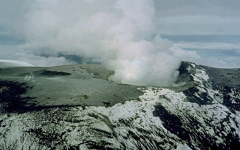 The broad summit of Nevado del Ruiz in late November 1985, after the eruption that caused the Armero tragedy. Dark deposits from the eruption's pyroclastic flows are partly covered with fresh snow.